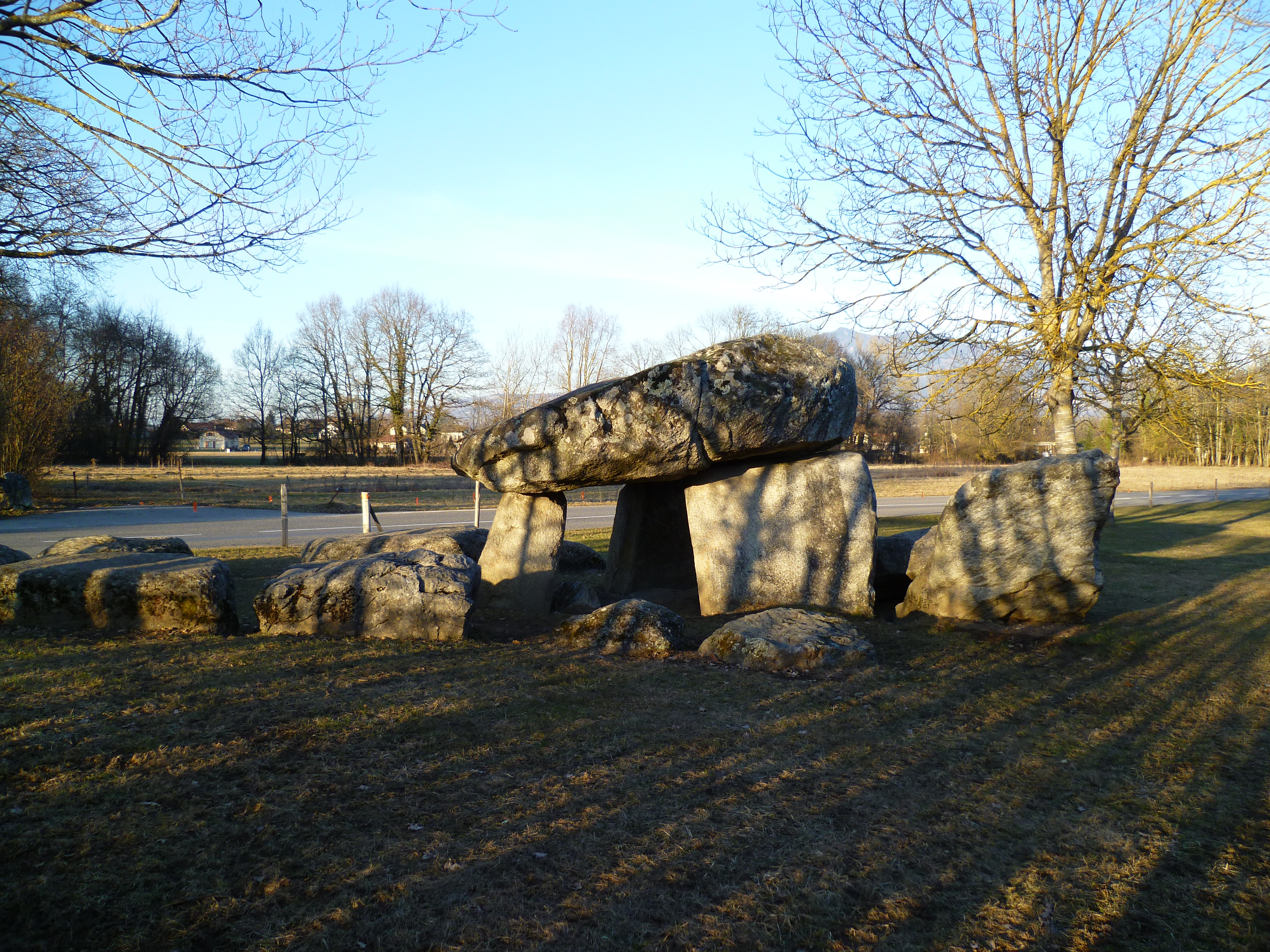 La Pierre aux Fées, Reignier, France